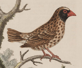 An etching representing the red-billed quelea, made by George Edwards in his Gleanings of Natural History, volume II, 1760